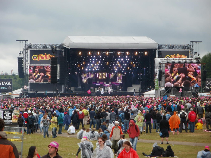 Mainstage of Pinkpop 2010